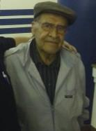 Cropped picture of Jaime Escalante